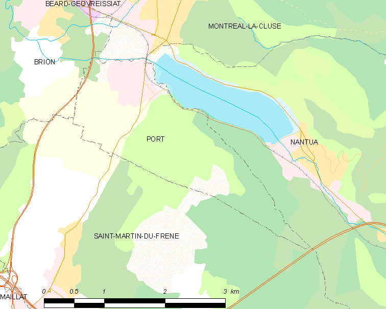 Map of French commune: Port Map commune FR insee code 01307.png